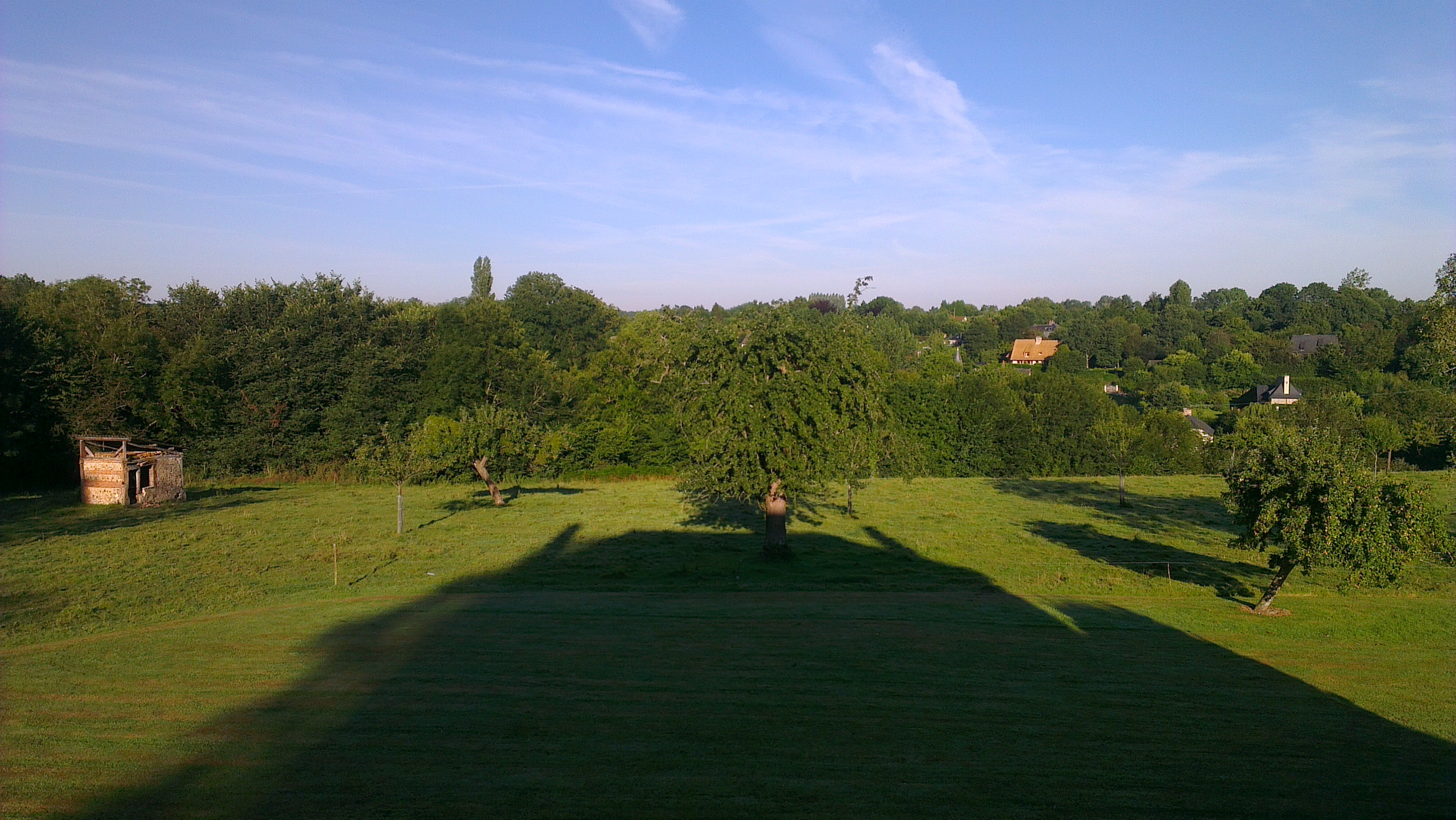 View of the countryside in Fourneville, France